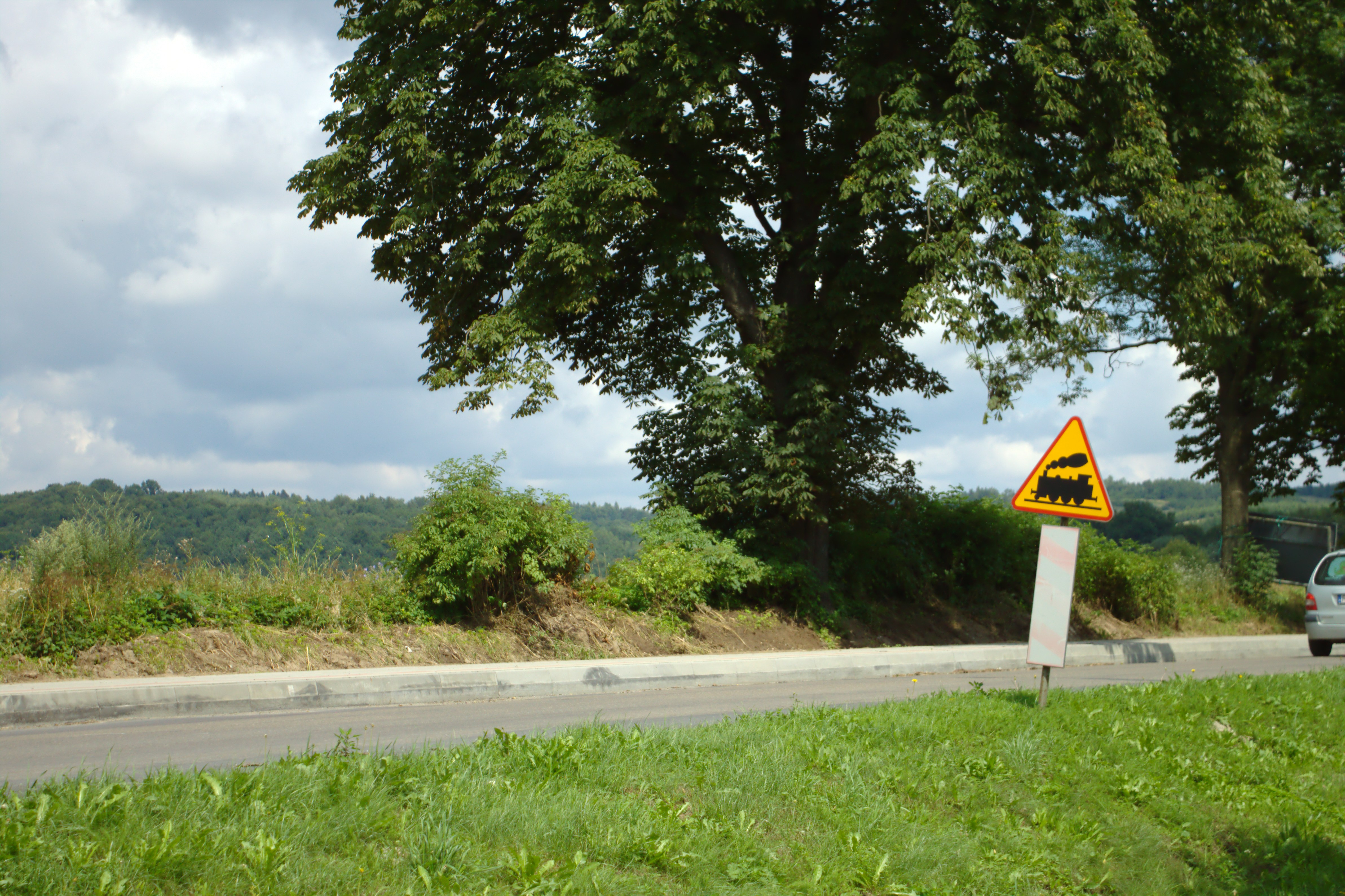 Main road going to the town of Bachórz from west, Podkarpackie voivodeship, Poland